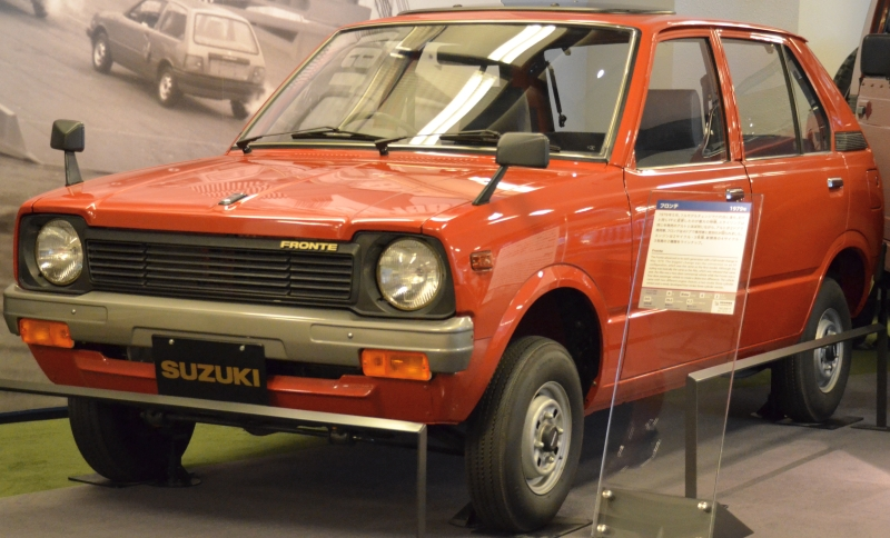 Suzuki Fronte